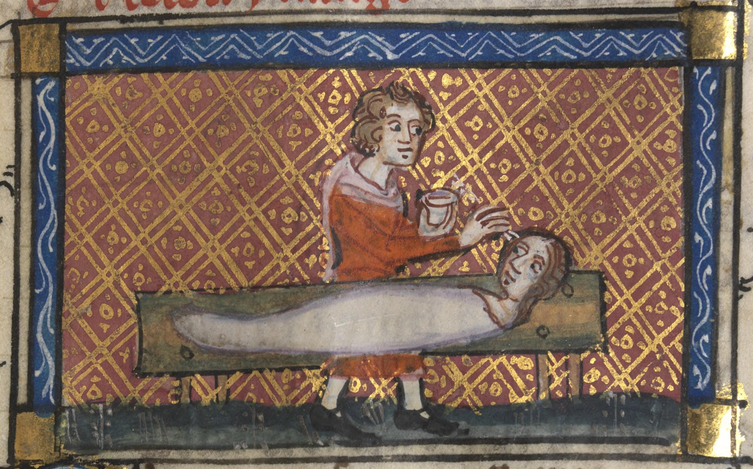 The Roman de la Rose manuscript contains one of the most popular romantic French poems of its time